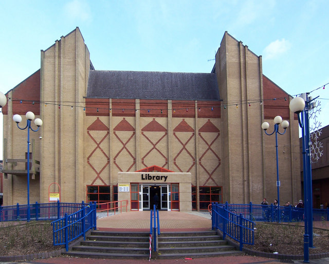 North Lincolnshire Central Library North Lincolnshire Central Library Carlton Street Scunthorpe North Lincolnshire DN15 6TX